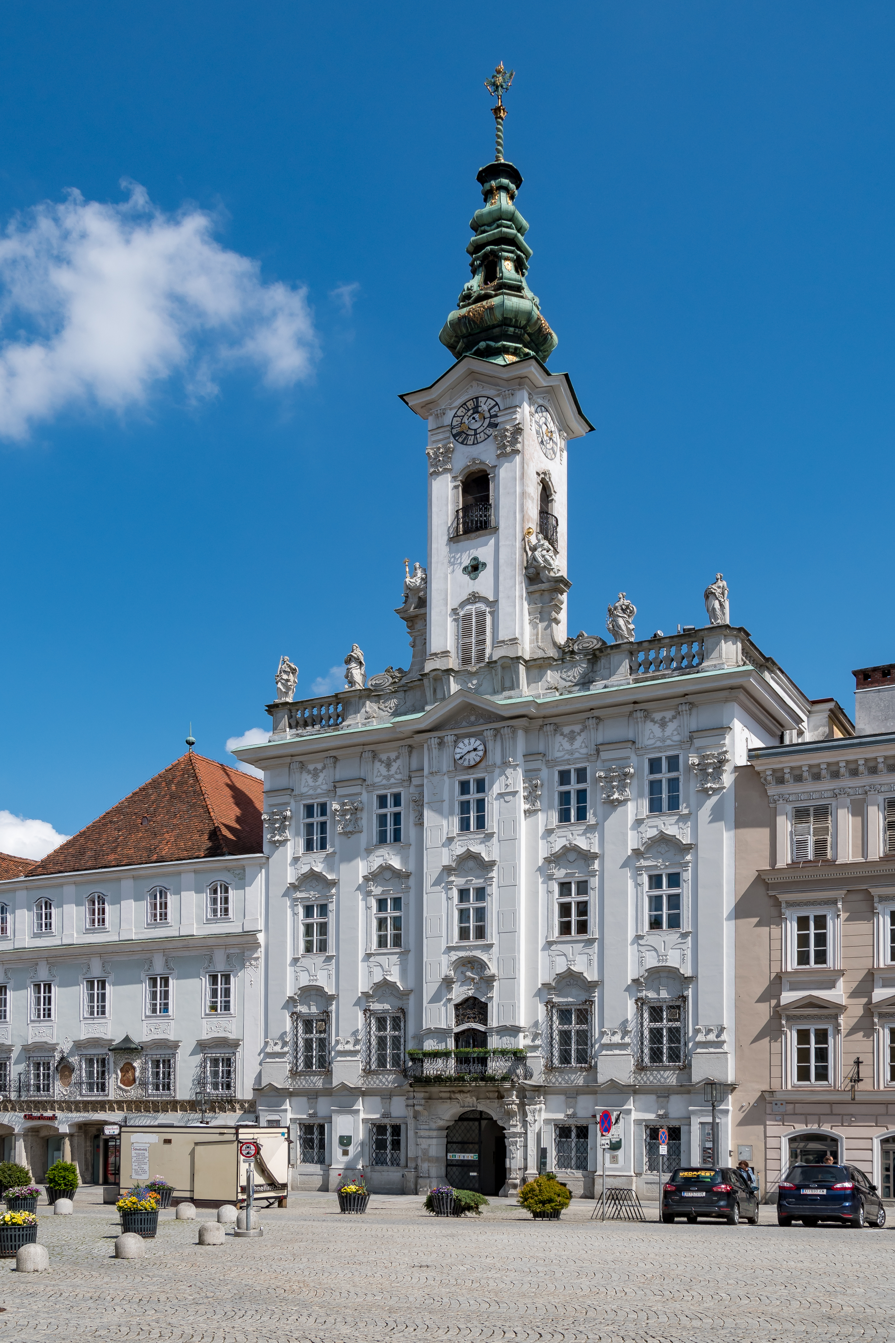 Town hall of Steyr / Upper Austria / erected between 1765 and 1778